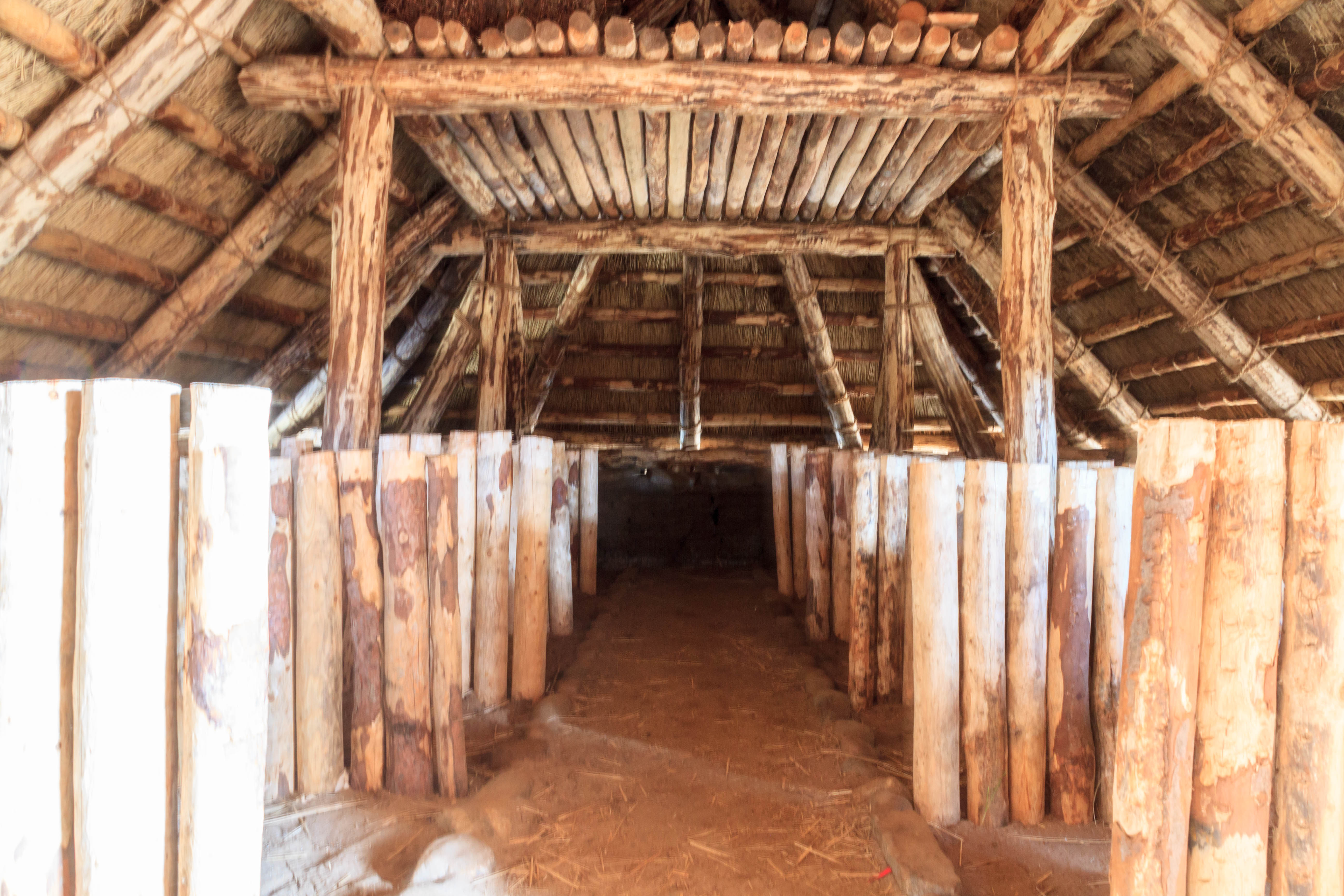 Nebel, Amrum, Schleswig-Holstein, replica of iron age house (interior) in the dunes, erected in 2014